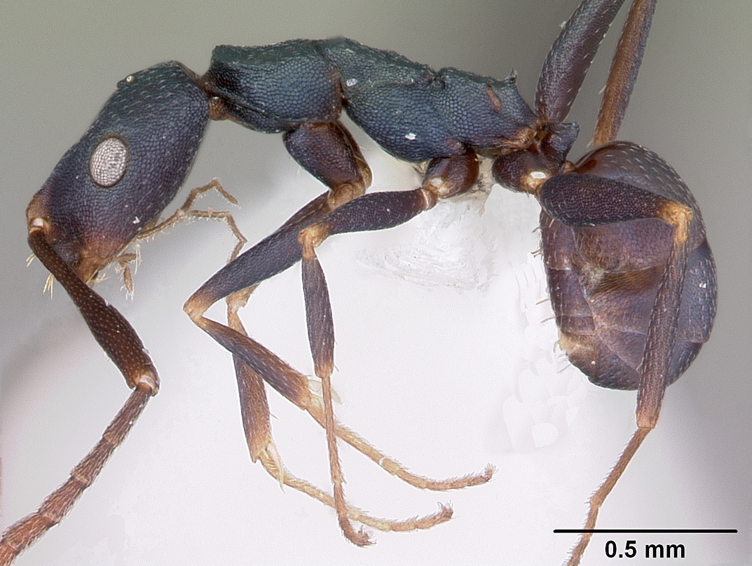 Profile view of ant Melophorus majeri specimen casent0104674.